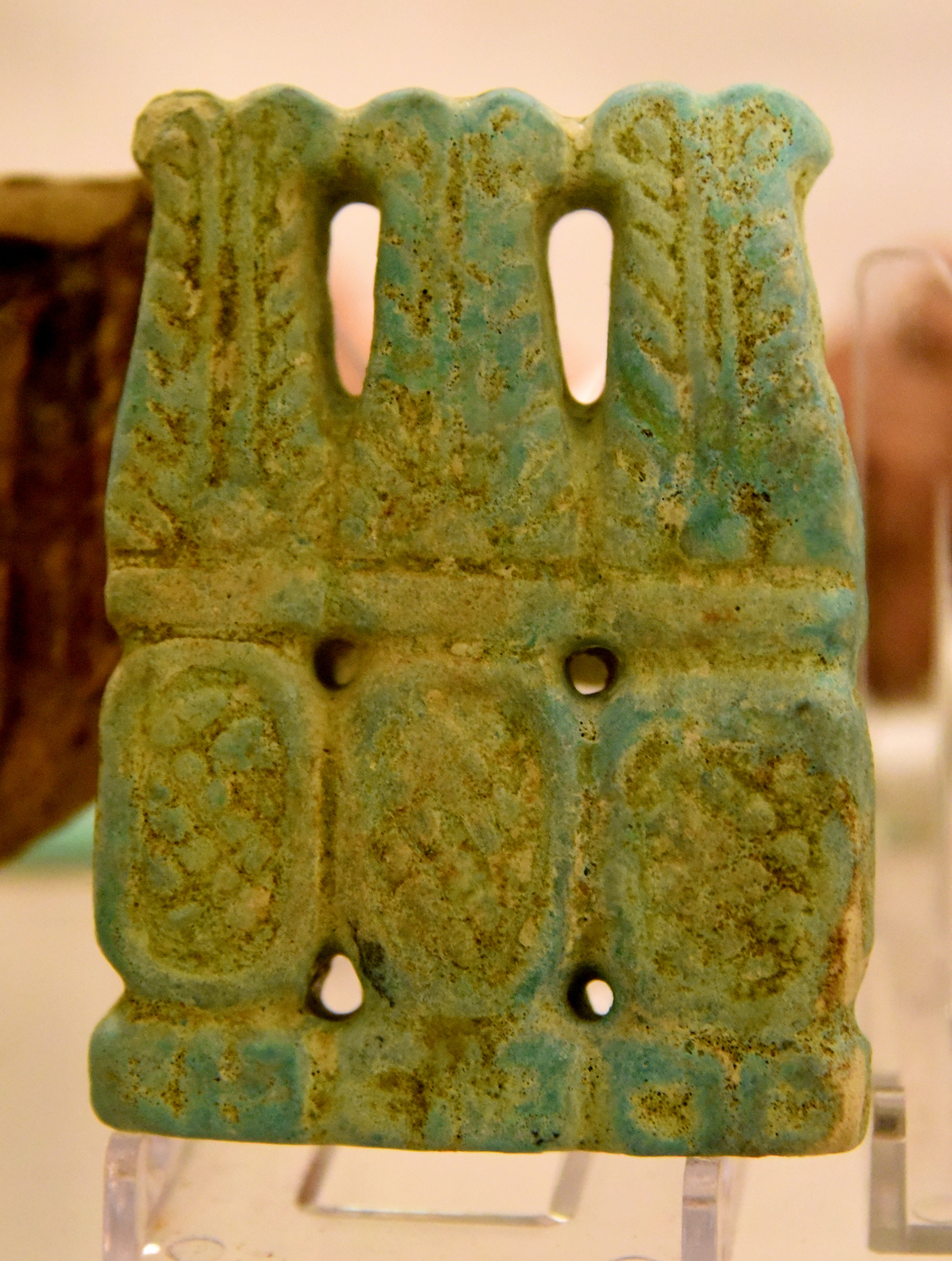 Stamp or thumb ring in the form of 3 cartouches, enclosing dot pattern. Each cartouche is topped with 2 plumes and sun disc. Blue-green faience. From Meroe. Meroitic period. The Petrie Museum of Egyptian Archaeology, London. With thanks to the Petrie Museum of Egyptian Archaeology, UCL.